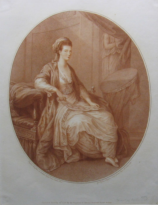 The Duchess of Richmond – presumably of Mary Bruce, wife of Charles Lennox, 3rd Duke of Richmond (1735–1806)